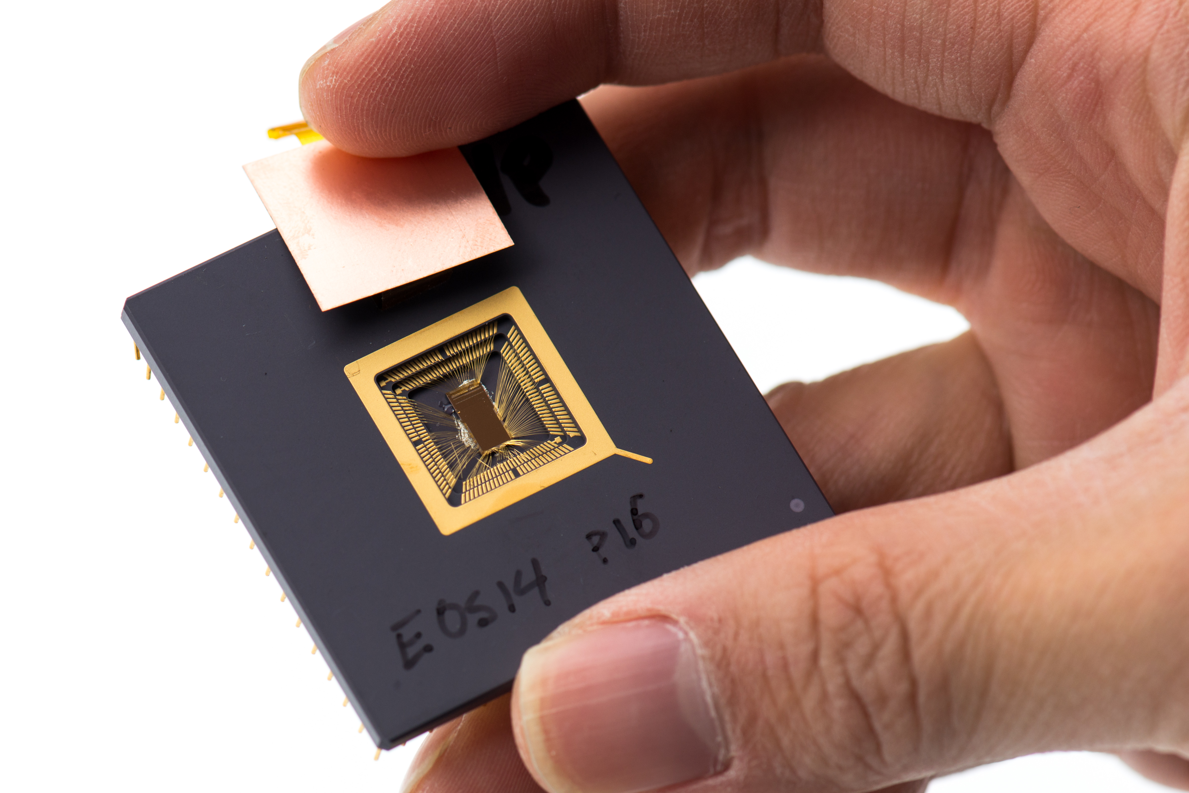 Yunsup Lee holding RISC V prototype chip. At UC Berkeley Par Lab Winter Retreat, January 2013.